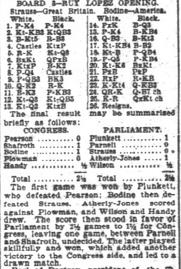 Image shows chess moves made by Arthur Strauss, who resigns the game in the 26th move against the American Bodine.